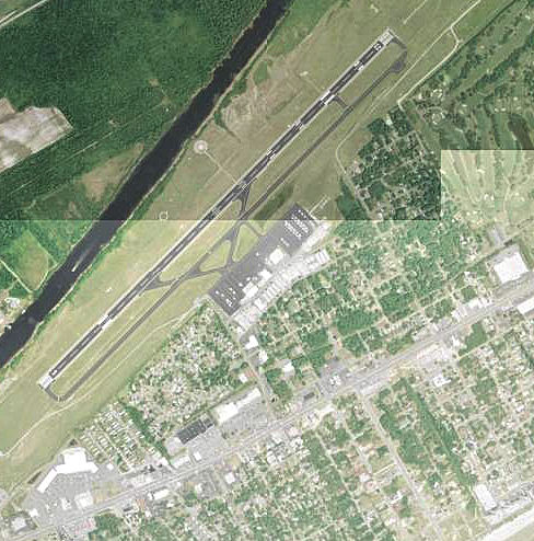 USGS digital orthophoto of Grand Strand Airport in South Carolina